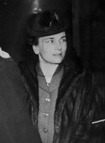 Commissioner Sir Philip Game (left) with Their Royal Highnesses the Duke and Duchess of Gloucester photographed at Euston Station on the eve of their departure for Australia. Cropped only on Princess Alice, Duchess of Gloucester